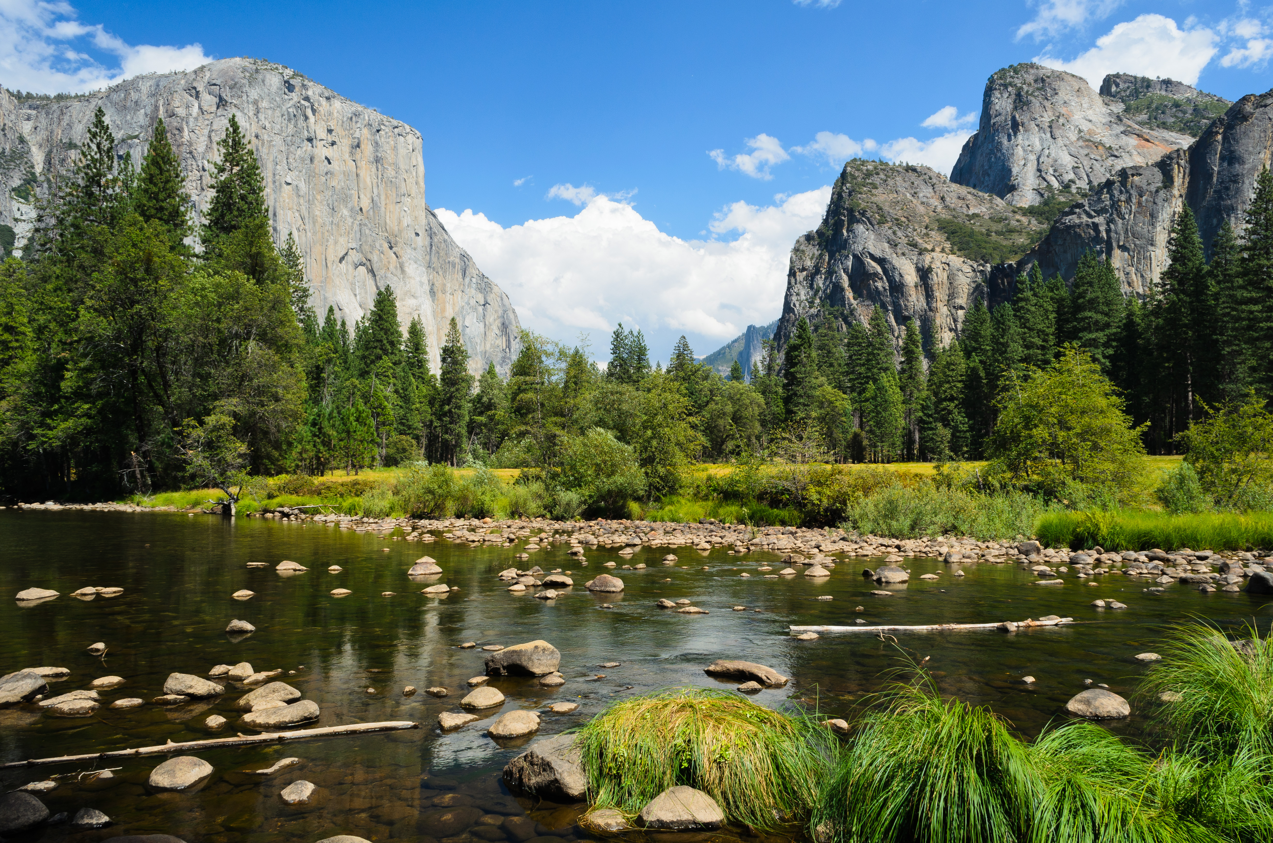 Valley View in Yosemite National Park.